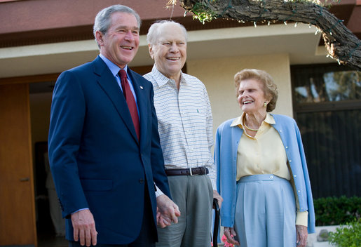 President George W. Bush, Former President Gerald Ford and Betty Ford greet the media at the end of his visit in Rancho Mirage, California, Sunday, April 23, 2006.